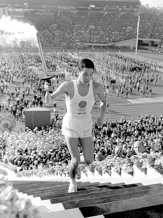 Yoshinori Sakai at the 1964 Olympics